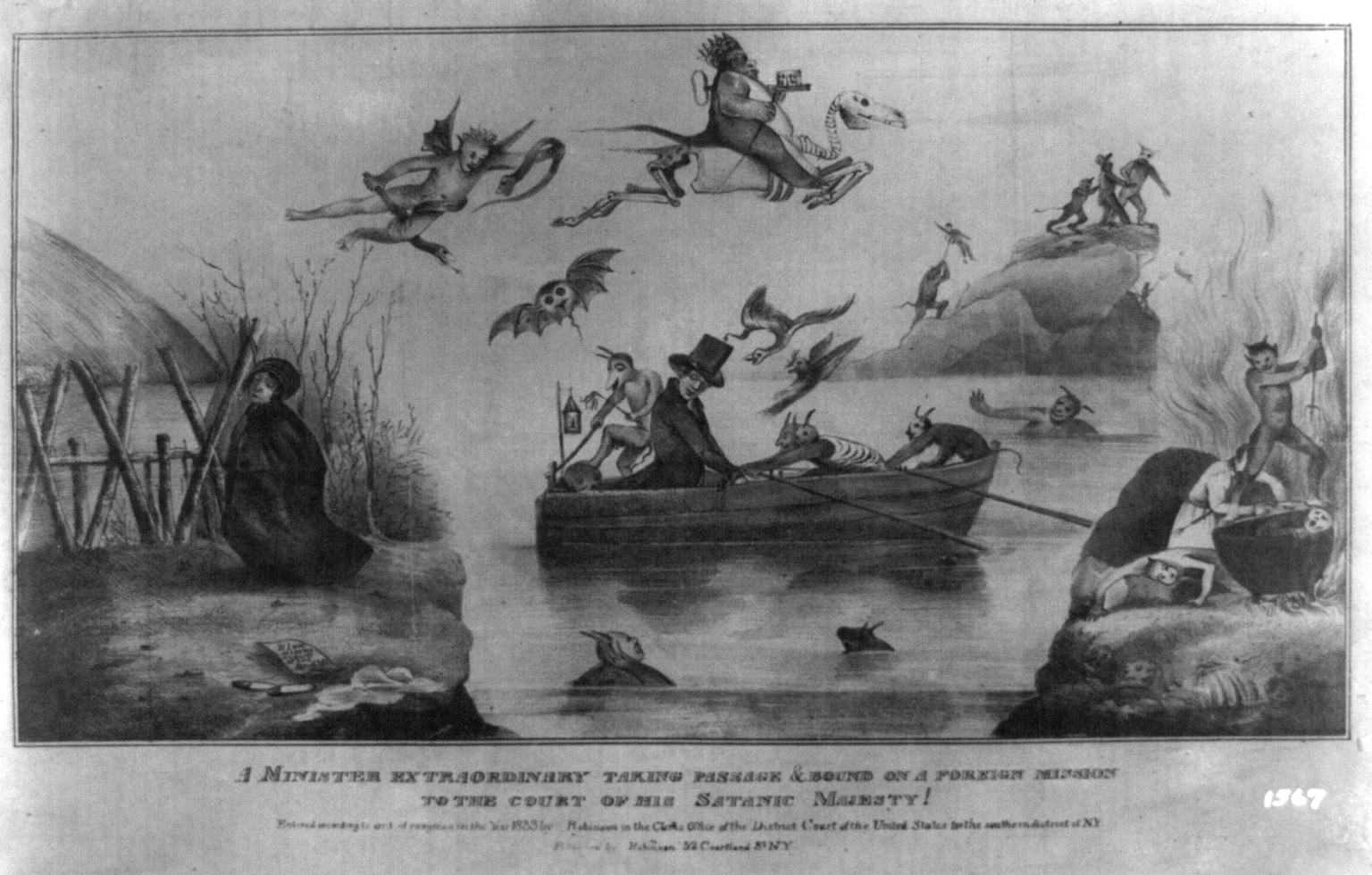 The second of two prints surrounding the scandalous trial of Methodist minister Ephraim K. Avery for the brutal murder of factory girl Sarah Maria Cornell. (See "A Very Bad Man," no. 1833-13). Contrary to Weitenkampf's suggestion that the print relates to Andrew Jackson, it is actually visionary portrayal of Avery transported to damnation by demons.Avery has departed the scene of his crime (left) where his victim, now expired, still hangs strangled from a post. Her shoes, kerchief, and a note reading "If I am missing enquire of the Revd. Mr..." lay nearby. As monsters fly overhead, Avery is rowed toward a shore at right where an inferno blazes and a man is boiled in a cauldron. Avery appears again in the upper right, being forcibly led toward a precipice.